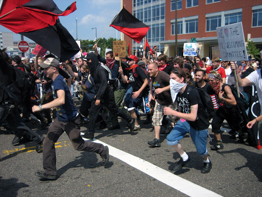 Black bloc participants running at the 2008 Republican National Convention in St. Paul, Minnesota.